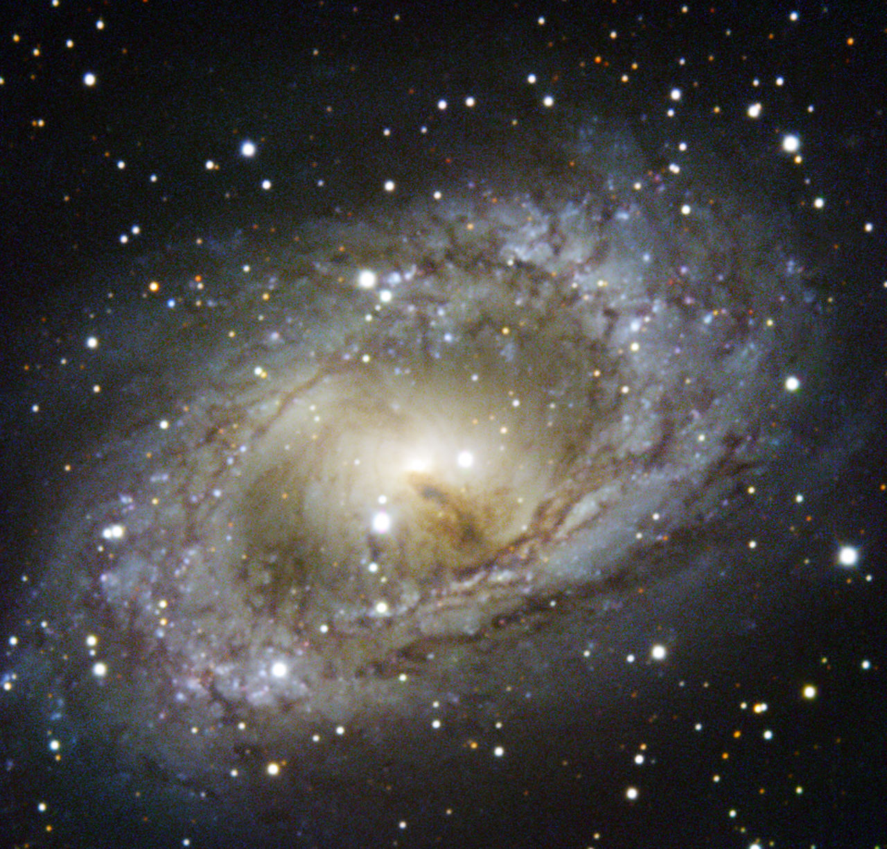 This image shows the bright centre and swirling arms of the spiral galaxy NGC 6300. NGC 6300 is located in a starry patch of sky in the southern constellation of Ara (The Altar) which contains a variety of intriguing deep-sky objects. NGC 6300 has beautiful pinwheeling arms connected by a straight bar that cuts through the middle of the galaxy. While it may look like a standard spiral galaxy in visible-light images like this one, it is actually a Seyfert II galaxy. Such galaxies have unusually luminous centres that emit very energetic radiation, meaning that they are often intensely bright in part of the spectrum either side of the visible. NGC 6300 is thought to contain a massive black hole at its heart some 300 000 times more massive than the Sun. This black hole is emitting high energy X-rays as it is fed by the material that is pulled into it. This image of NGC 6300 was taken by the ESO Faint Object Spectrograph and Camera (EFOSC2) on the 3.58-metre New Technology Telescope (NTT). The NTT is based at ESO’s La Silla observing site, on the outskirts of the Atacama Desert in Chile, and was inaugurated in 1989. A black and white image of NGC 6300 was released at the time of the telescope’s inauguration — one of 31 images that were the first to be released from the NTT.